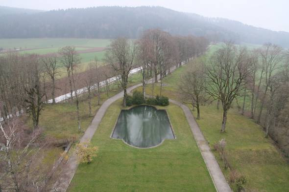 Wil Castle, garden and avenue.